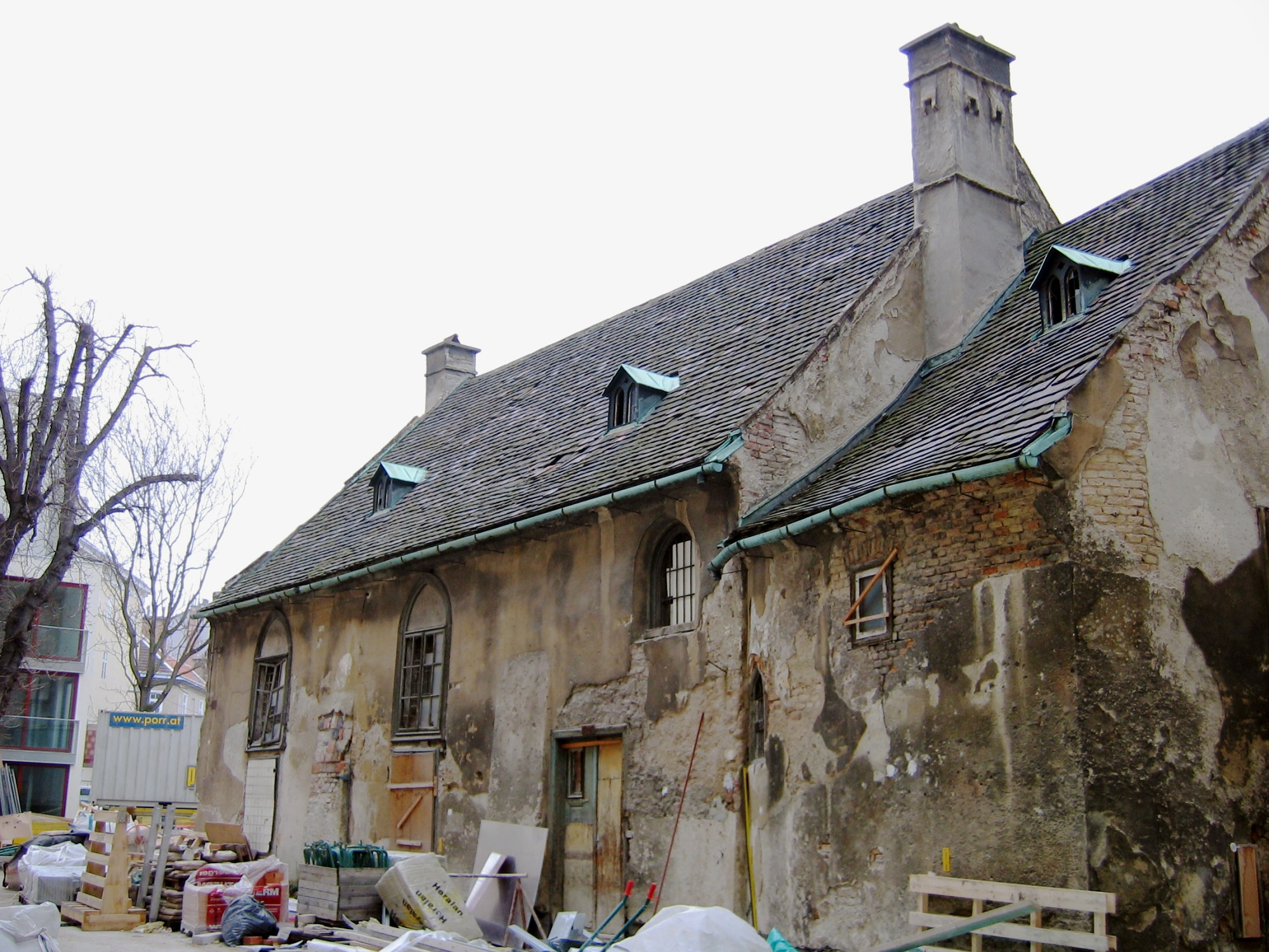 The "Heumühle" in Vienna's district of Wieden